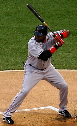 Image of David Ortiz, designated hitter on the Boston Red Sox (2006). Cropped from original image found here: [1] Photo by Albert Yau 04:49, 5 December 2006 . . Mattingly23 . . 250×407 (24 KB)